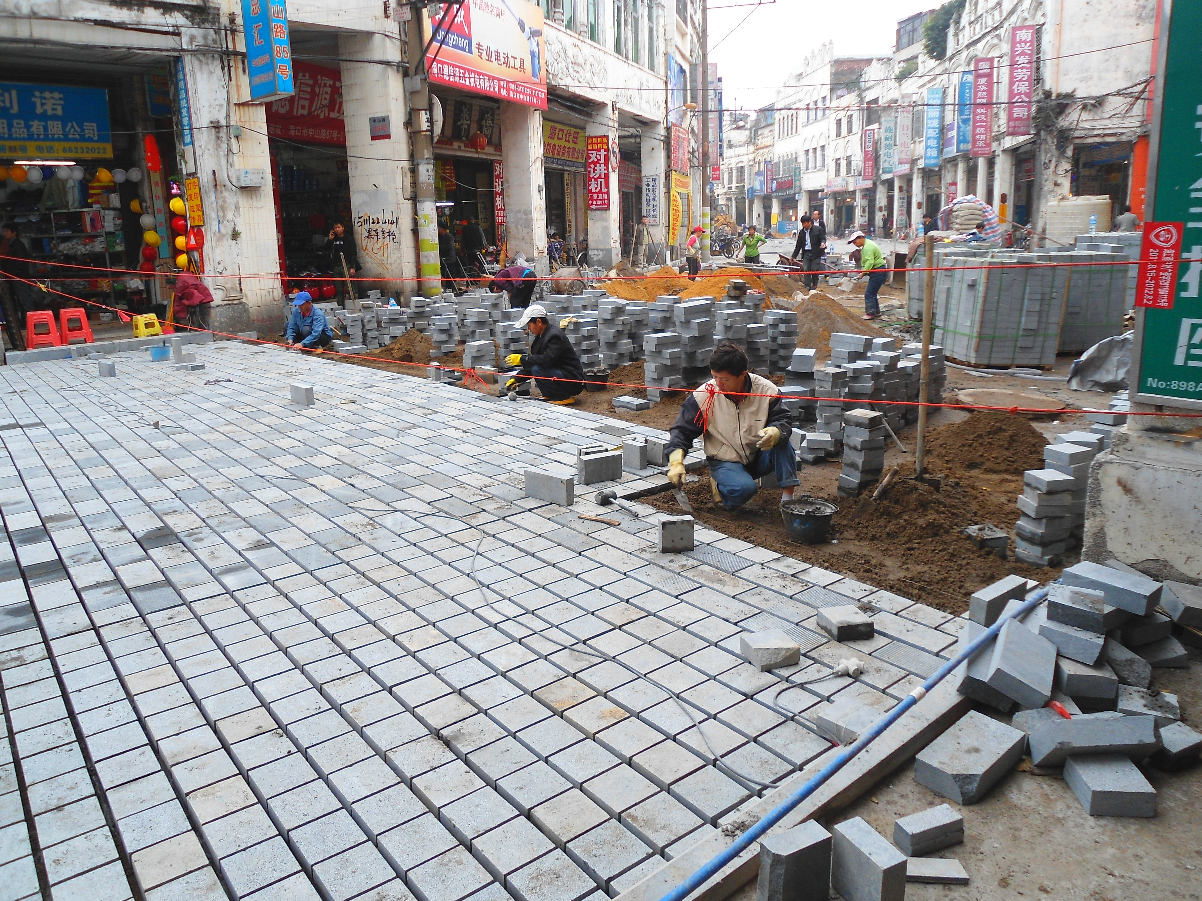 Replacing the old road with cobblestones on Zhongshan Road, in Boai Road area, Haikou City, Hainan Province, China.